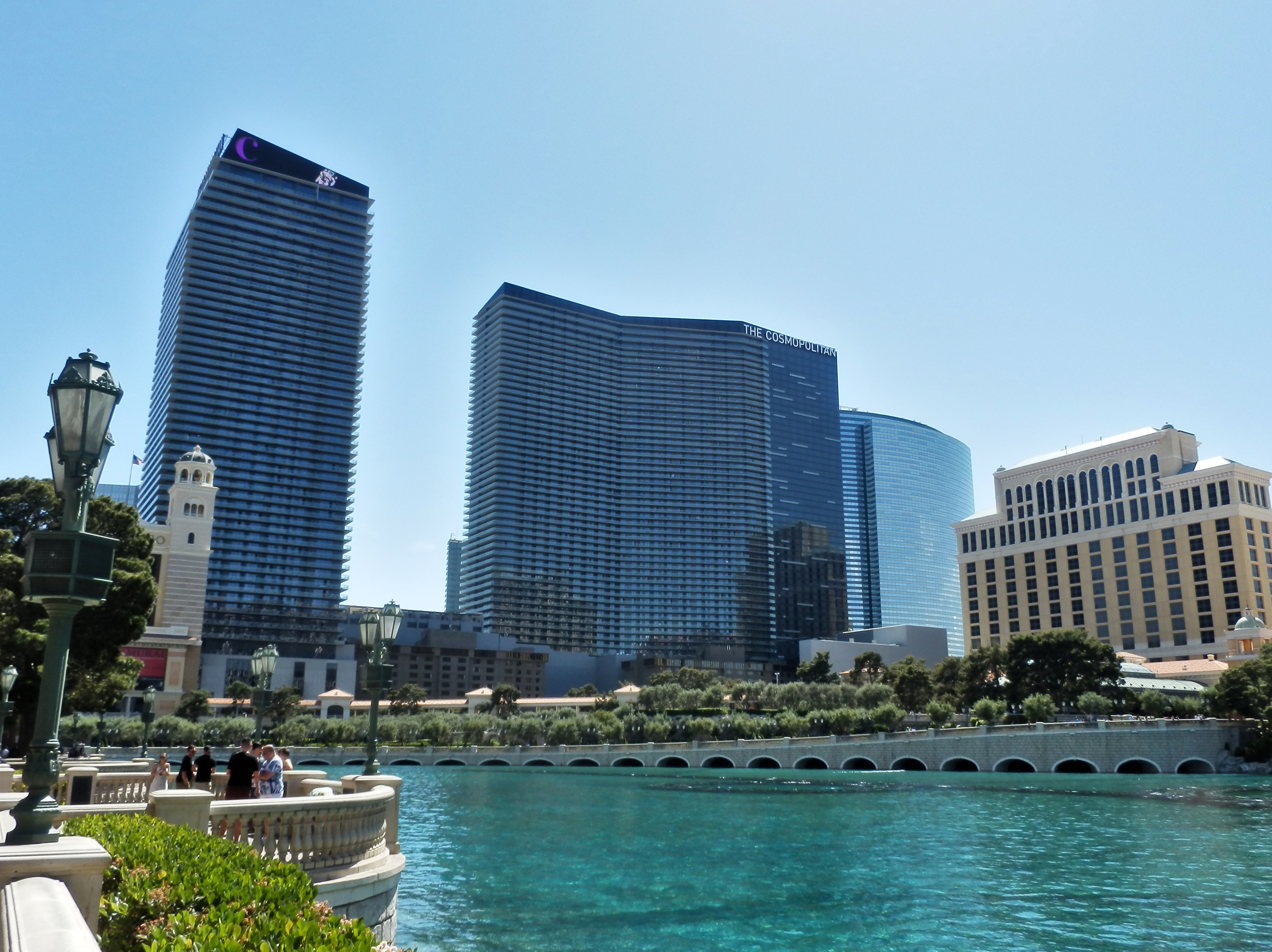 The Cosmopolitan in Las Vegas